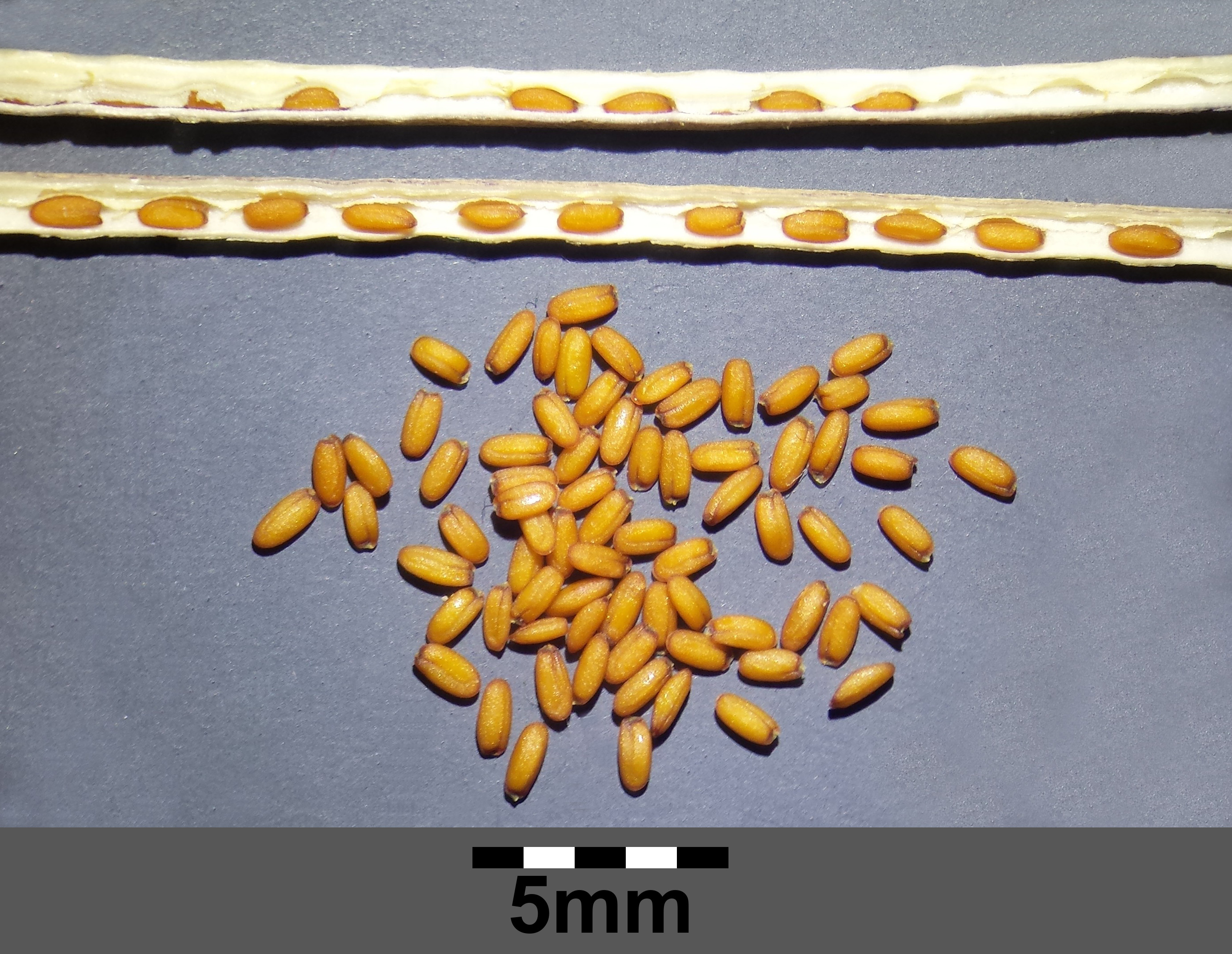 Silique opened, with seeds Taxonym: Erysimum repandum ss Fischer et al. EfÖLS 2008 ISBN 978-3-85474-187-9 Location: Leiser Berge, district Korneuburg, Lower Austria - ca. 400 m a.s.l. Habitat: field